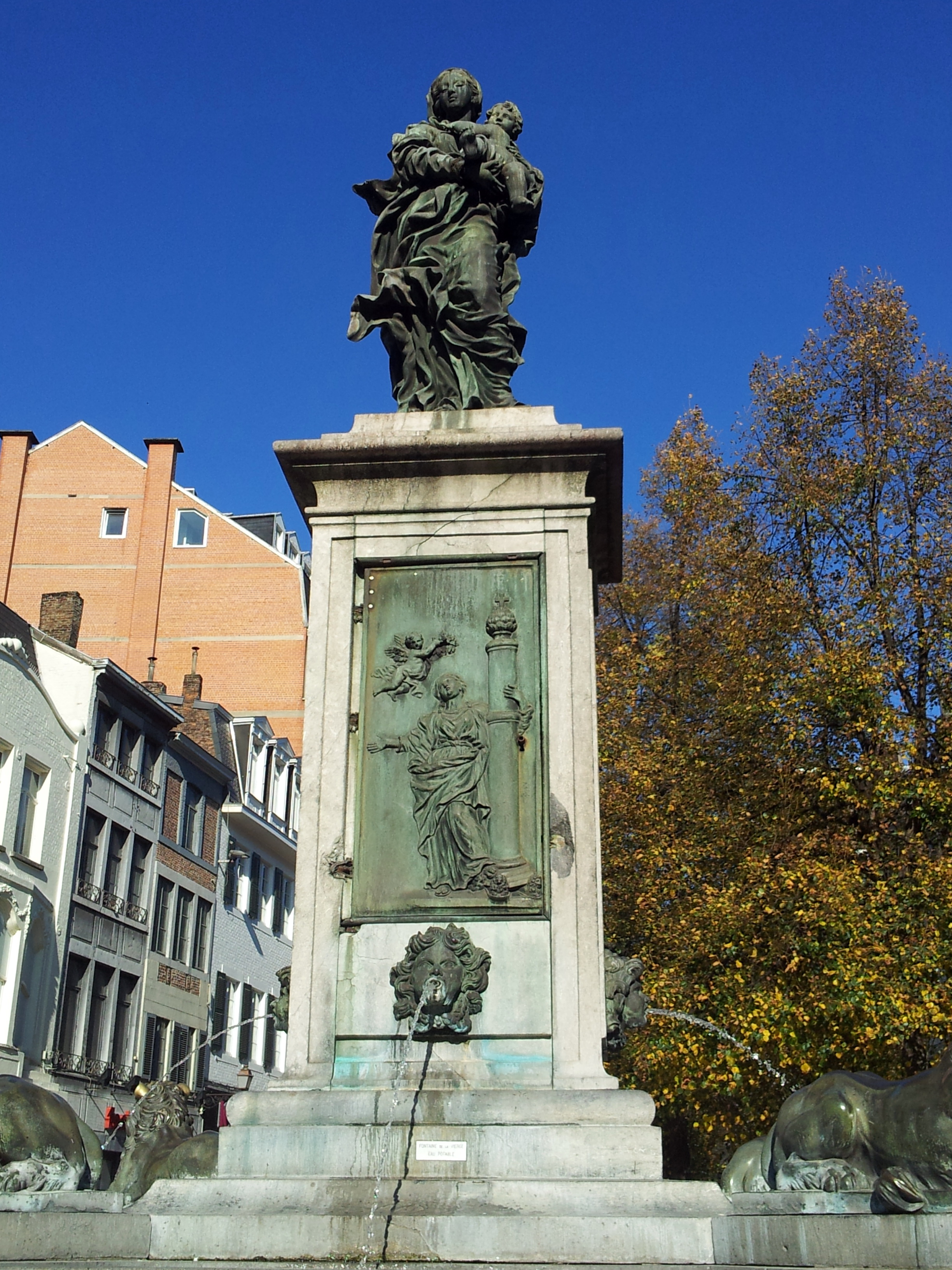 Liège, Belgium. Detail of the fountain at Vinâve d'Île, opposite Liège Cathedral, with the 18th-century statue of Madonna with Child by Jean Del Cour.